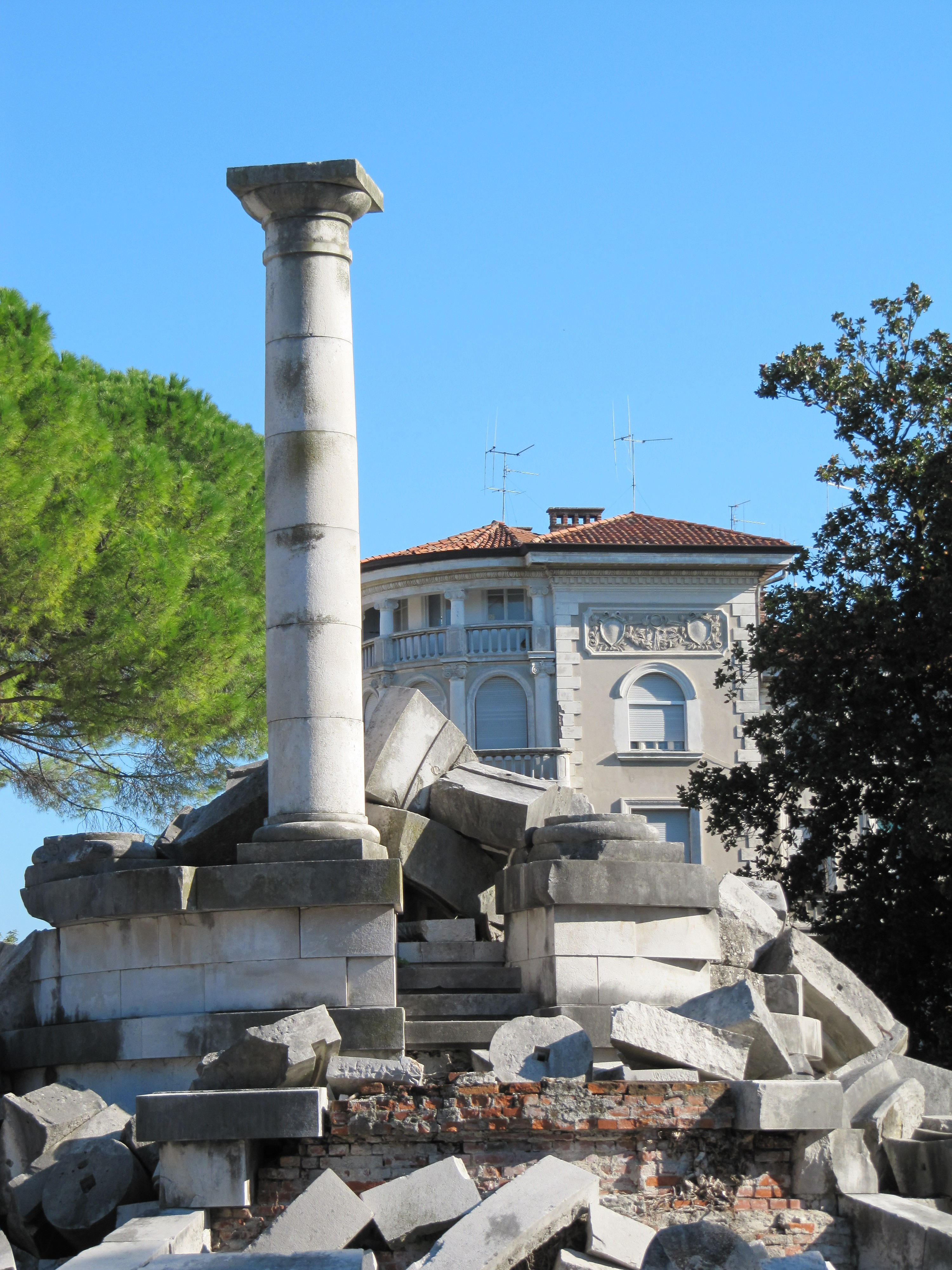 Ruins of circle temple made by Enrico Del Debbio of remembrance park of Gorizia in Italy.